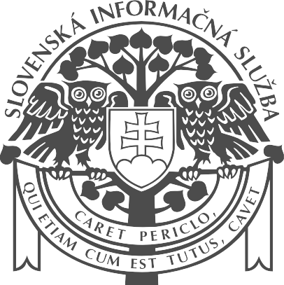 This is the official seal of the Slovak Information Service. The upper part of the SIS logo consists of a semicircle and the sign “The Slovak Information Service”. The national emblem of the Slovak Republic is placed in the centre of the SIS logo. It denotes that the country and the protection of state interests are in the centre of concern of the Service and its officers. The national emblem of the Slovak Republic is protected by two owls – symbols of wisdom and prudence – sitting on branches of a linden tree, the traditional tree of Slavs. The lower part of the SIS logo shows a hanging ribbon with a quotation by Publilius Syrus, a Latin writer of maxims: “Caret periclo, qui etiam cum est tutus, cavet.“ meaning the following “One who is on the alert avoids danger even if one feels safe.“